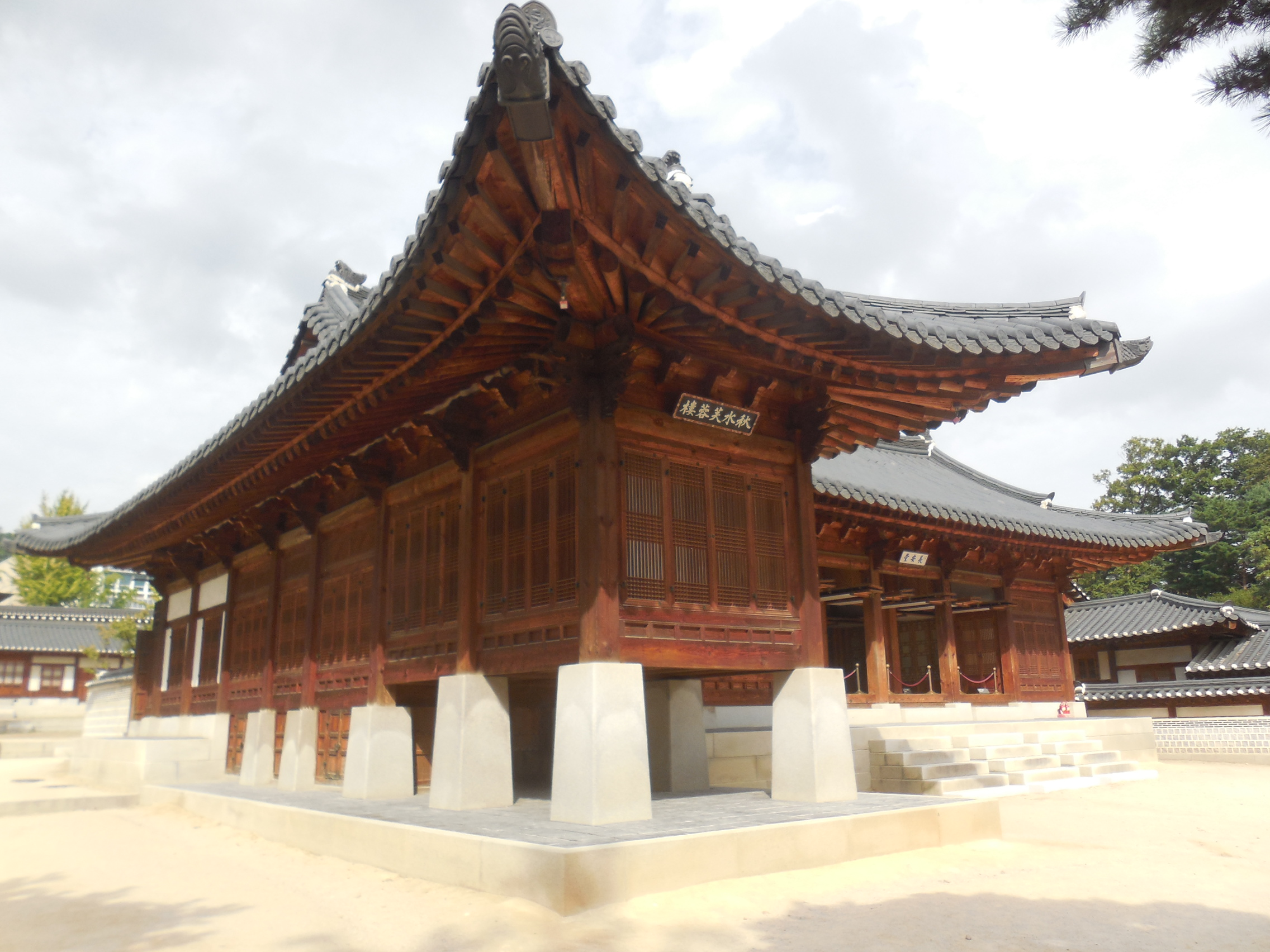 Jangandang in Geoncheonggung, inside Gyeongbokgung